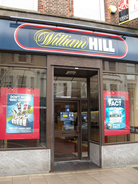 William Hill in Chapel Road